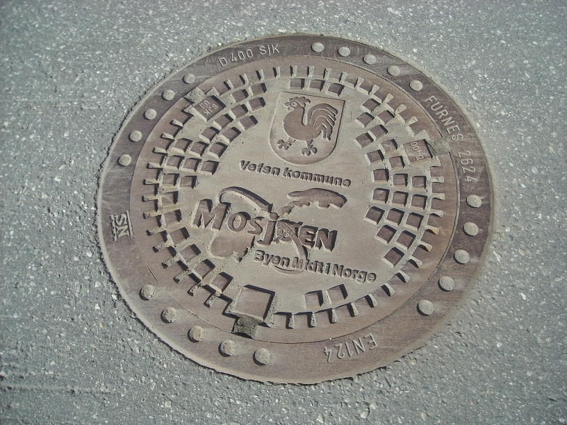 Mosjøen, Norway. Manhole cover with the arms of the town and of Vefsn Municipality.